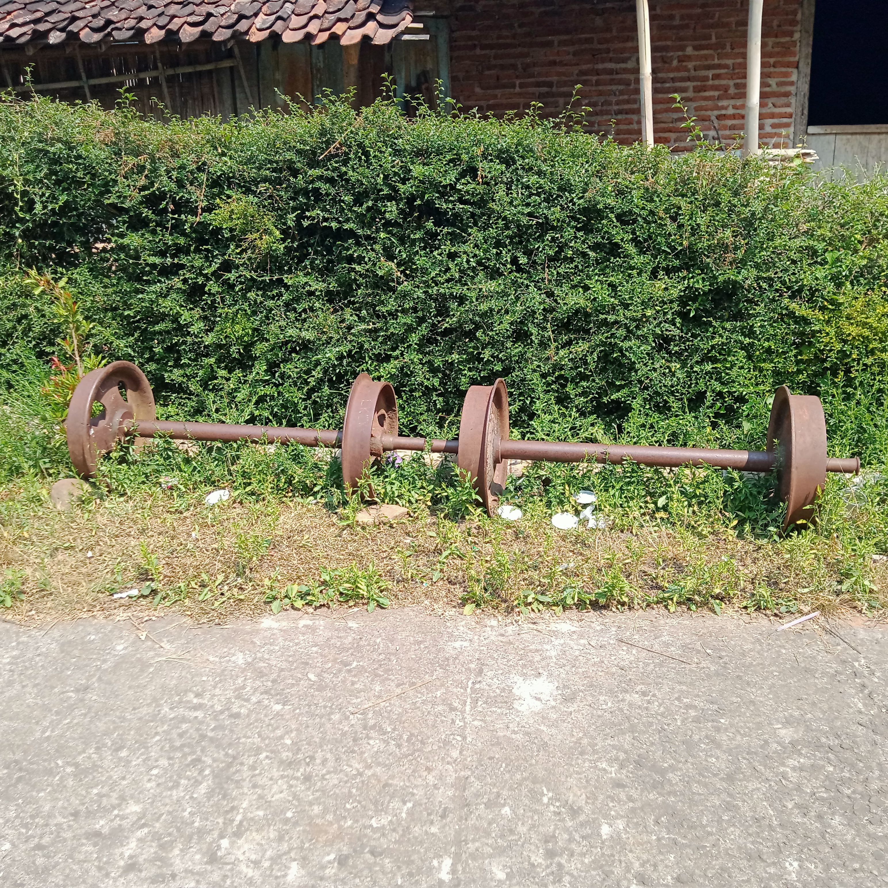 Bekas roda kereta dekat Stasiun Candi Umbul